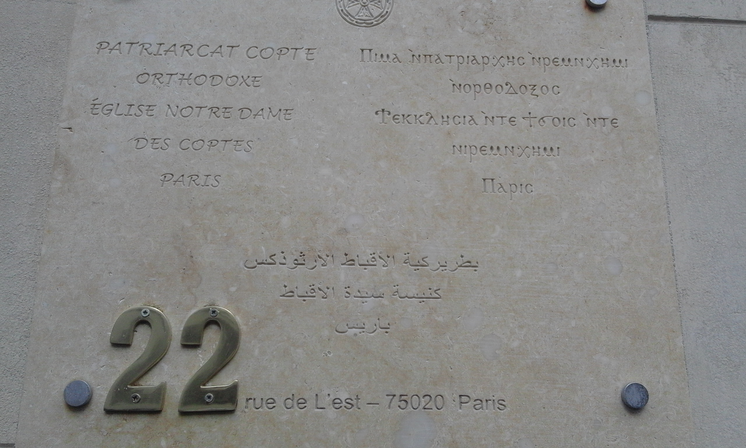 Plaque à l'entrée de l'église chrétienne orthodoxe copte à Paris, France. Les inscriptions sont en trois langues : français, copte (en écriture copte dérivé du grec), et arabe. La croix de Saint Georges se trouve sur le haut de la plaque.